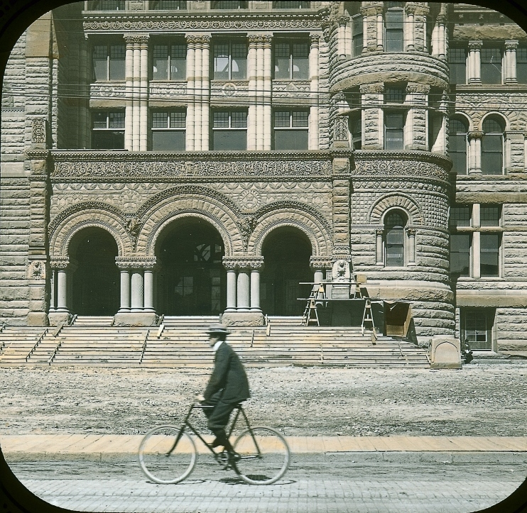 Cyclist passing in front of the new City Hall and Municipal Courts building on Queen Street, Toronto, Canada. The City Hall appears to be under the last stages of construction, given the wooden frames and scaffolding on the front stairs and the state of the open space in front of the building.